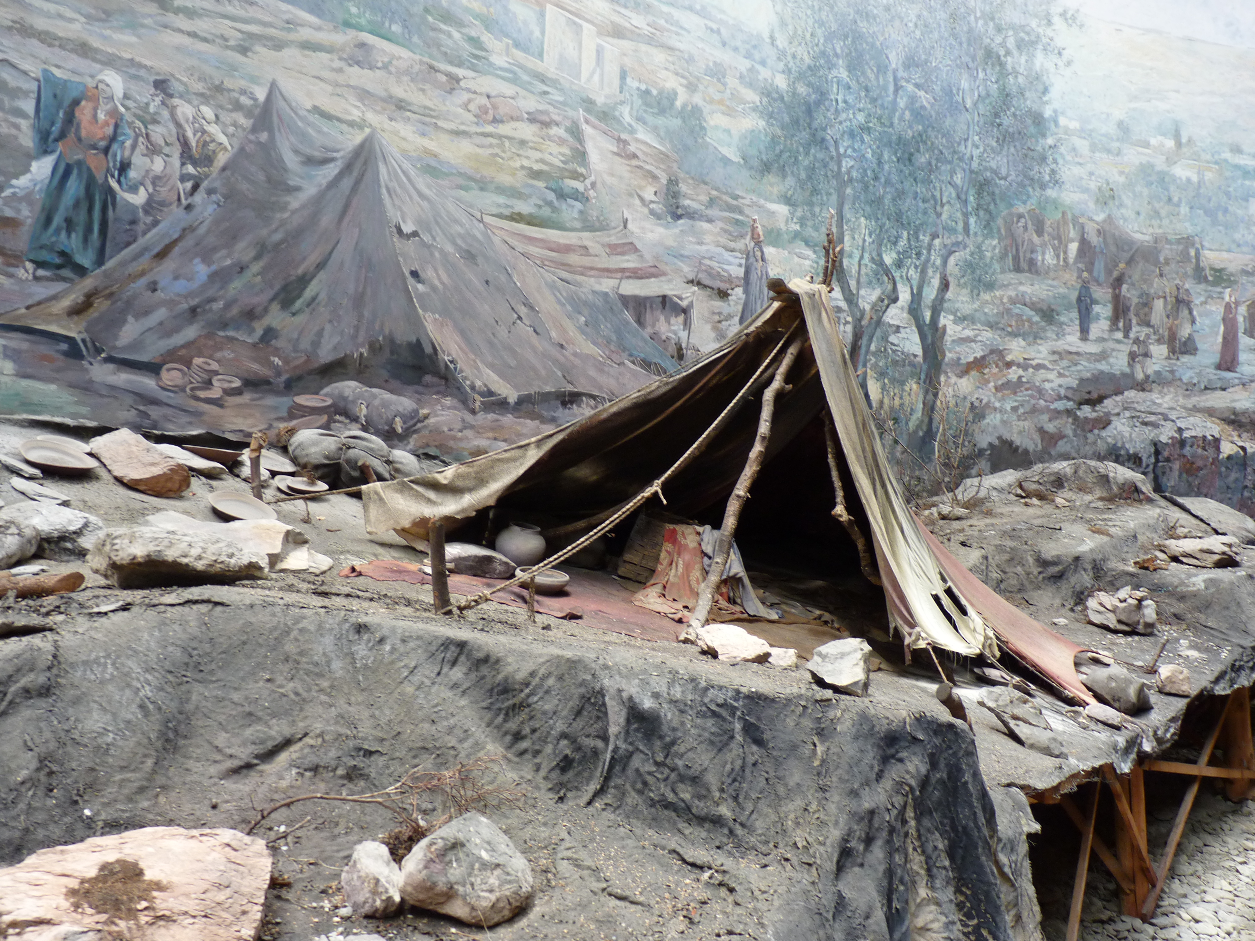 Panorama Einsiedeln, faux terrain with pilgrim tent